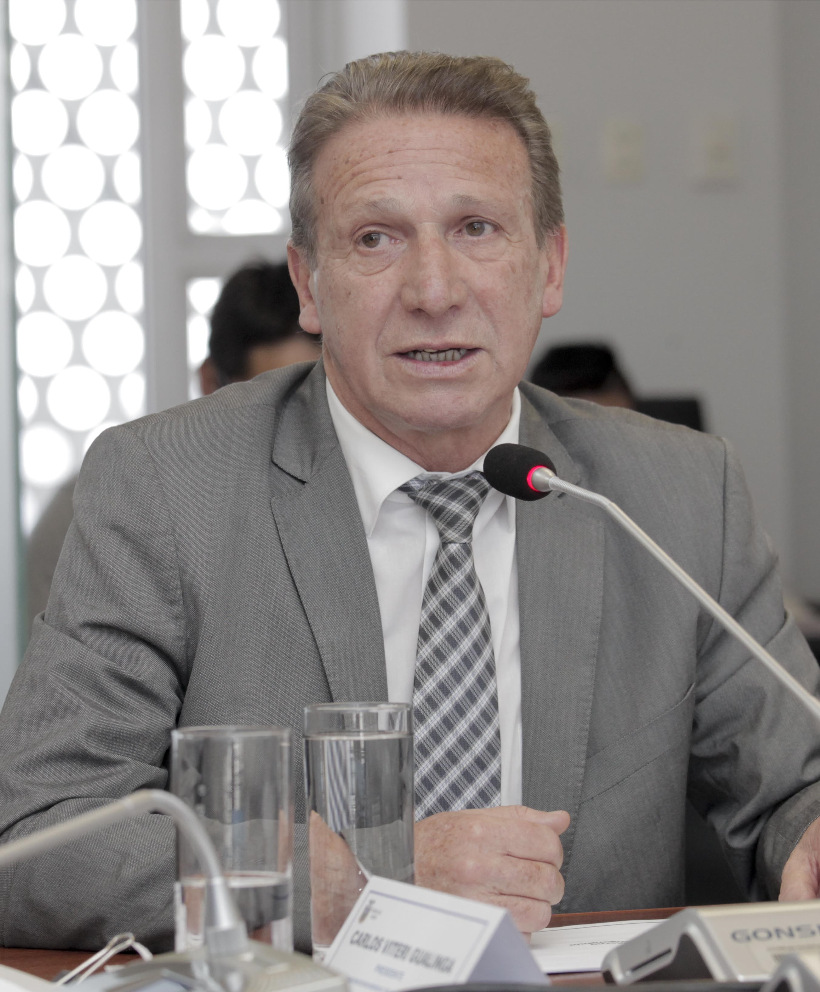 Fotografía: Alberto Romo/Asamblea Nacional. Cropped from File:Fernando Naranjo en la Asamblea Nacional.jpg